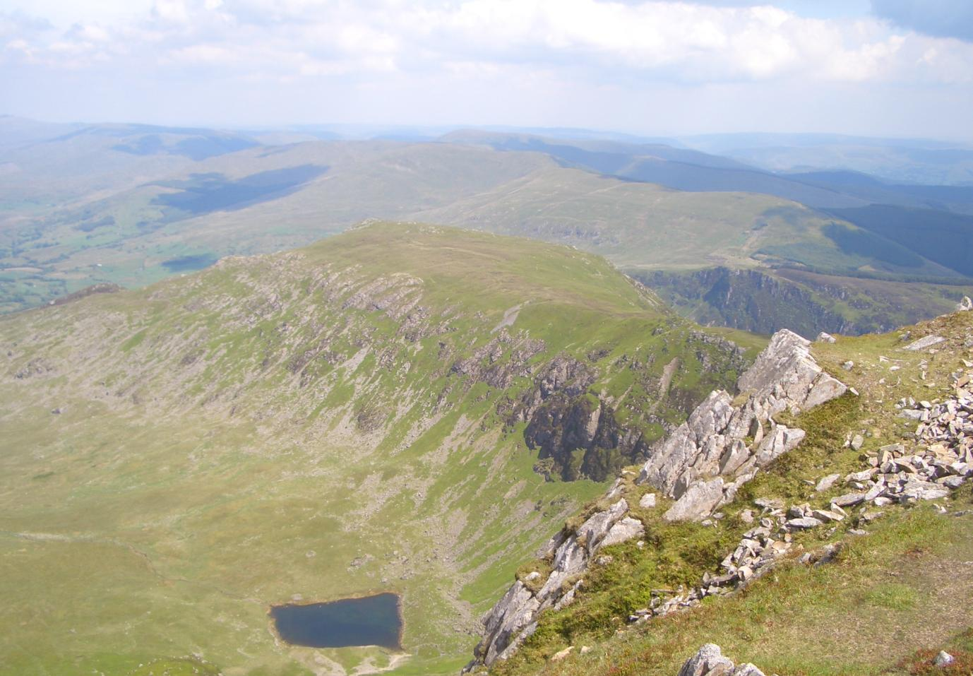 Gau Graig